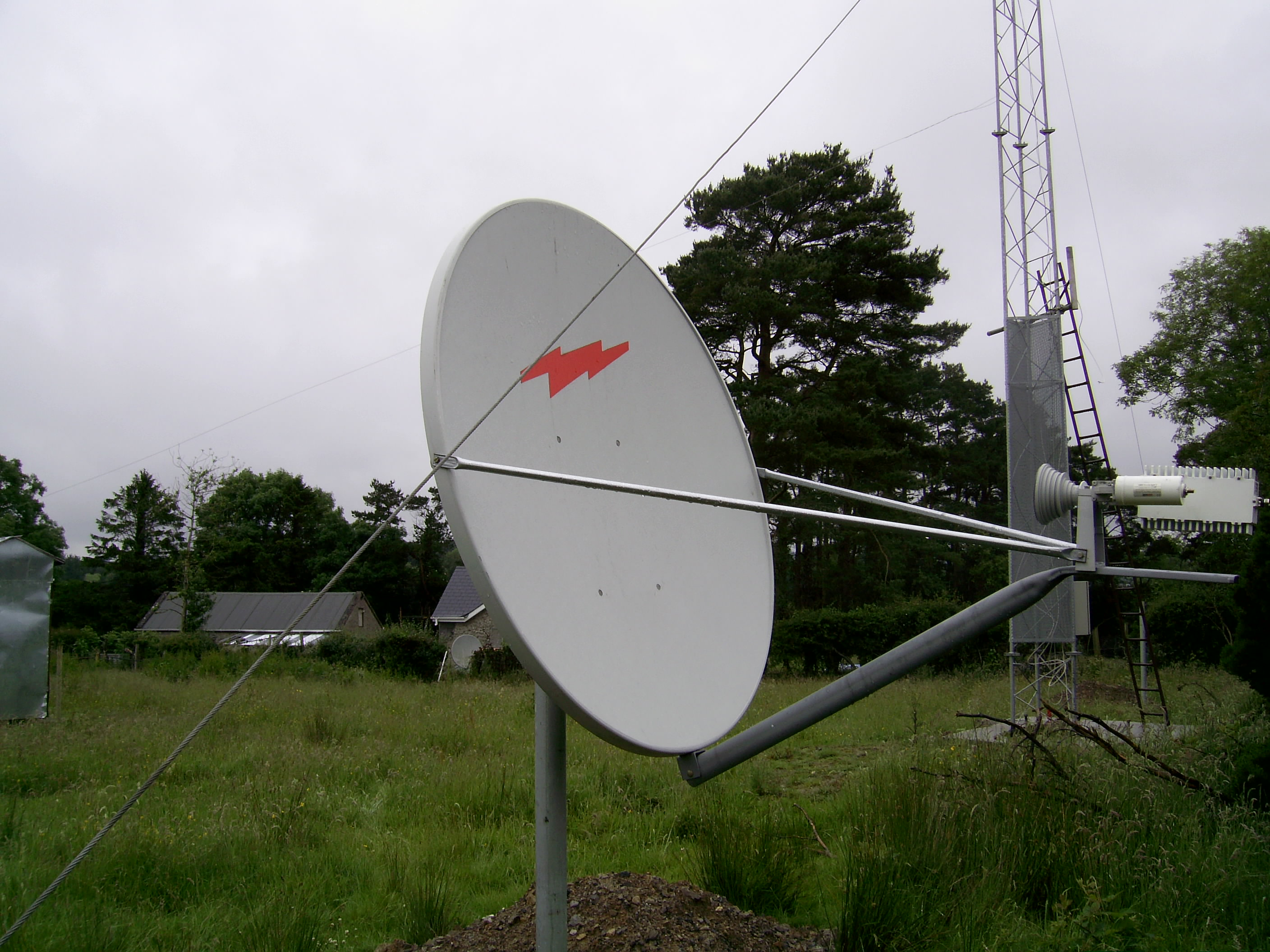 Andrew VSAT antenna 1.2 m with feed horn.